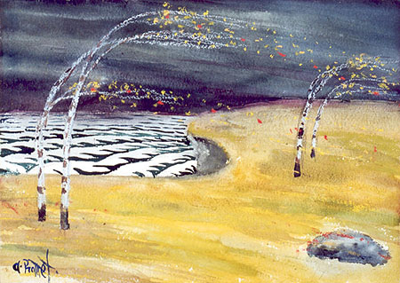 Autumn. 35 x 48 cm